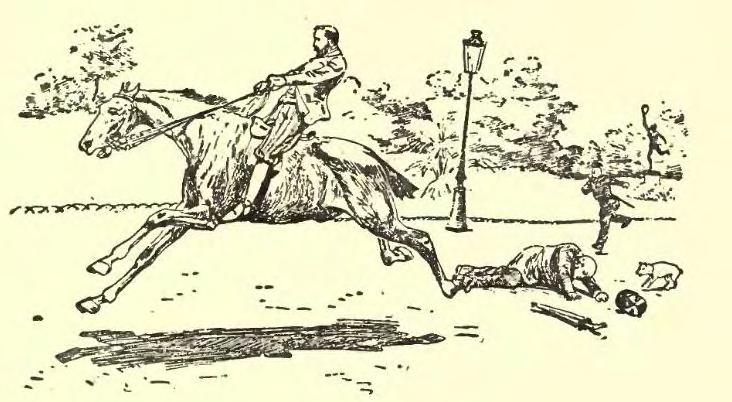 Illustrations from File:Equitation.djvu, see details; see too File:Equitation_images.djvu where the same images are bundled into a single djvu file